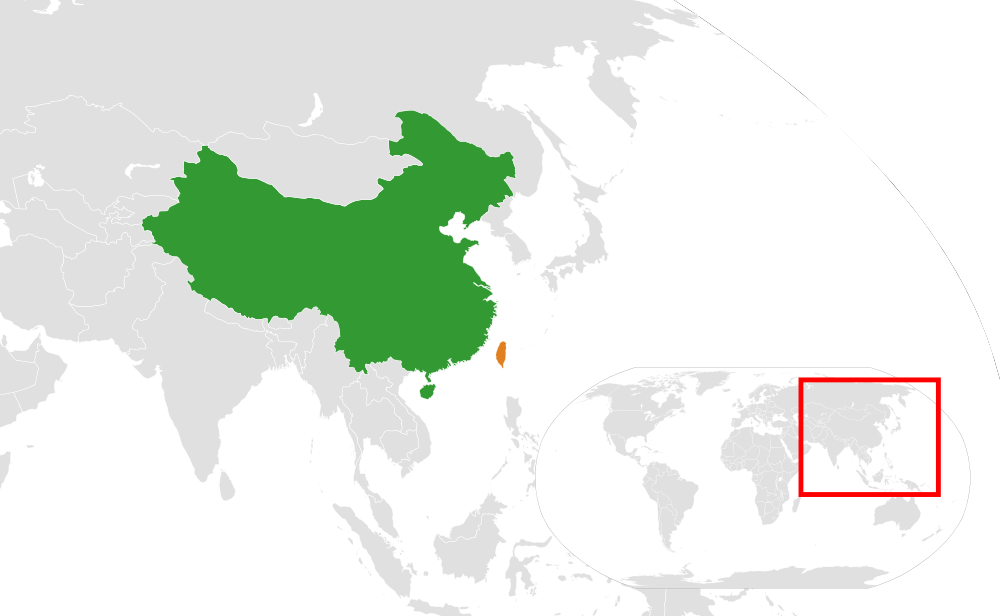 created for the Cross-Strait relations article. 中文（中国大陆）: 海峡两岸关系用图。